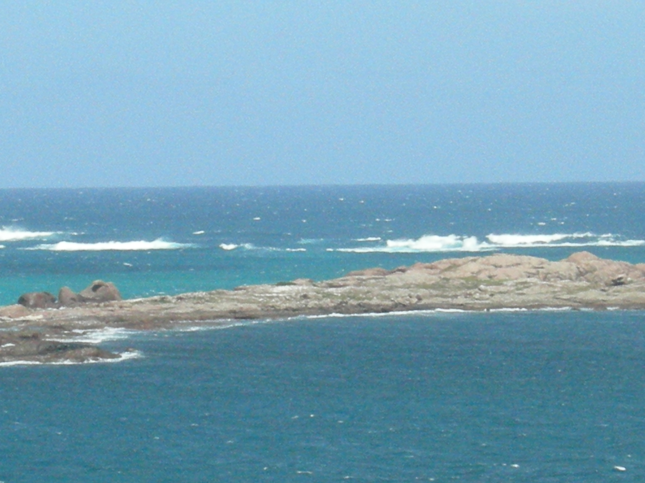 Closest of the St Alouarn islands to coast, east of the Cape Leeuwin Lighthouse, South west Western Australia, taken in 2007, with prevailing winds and broken water from south west